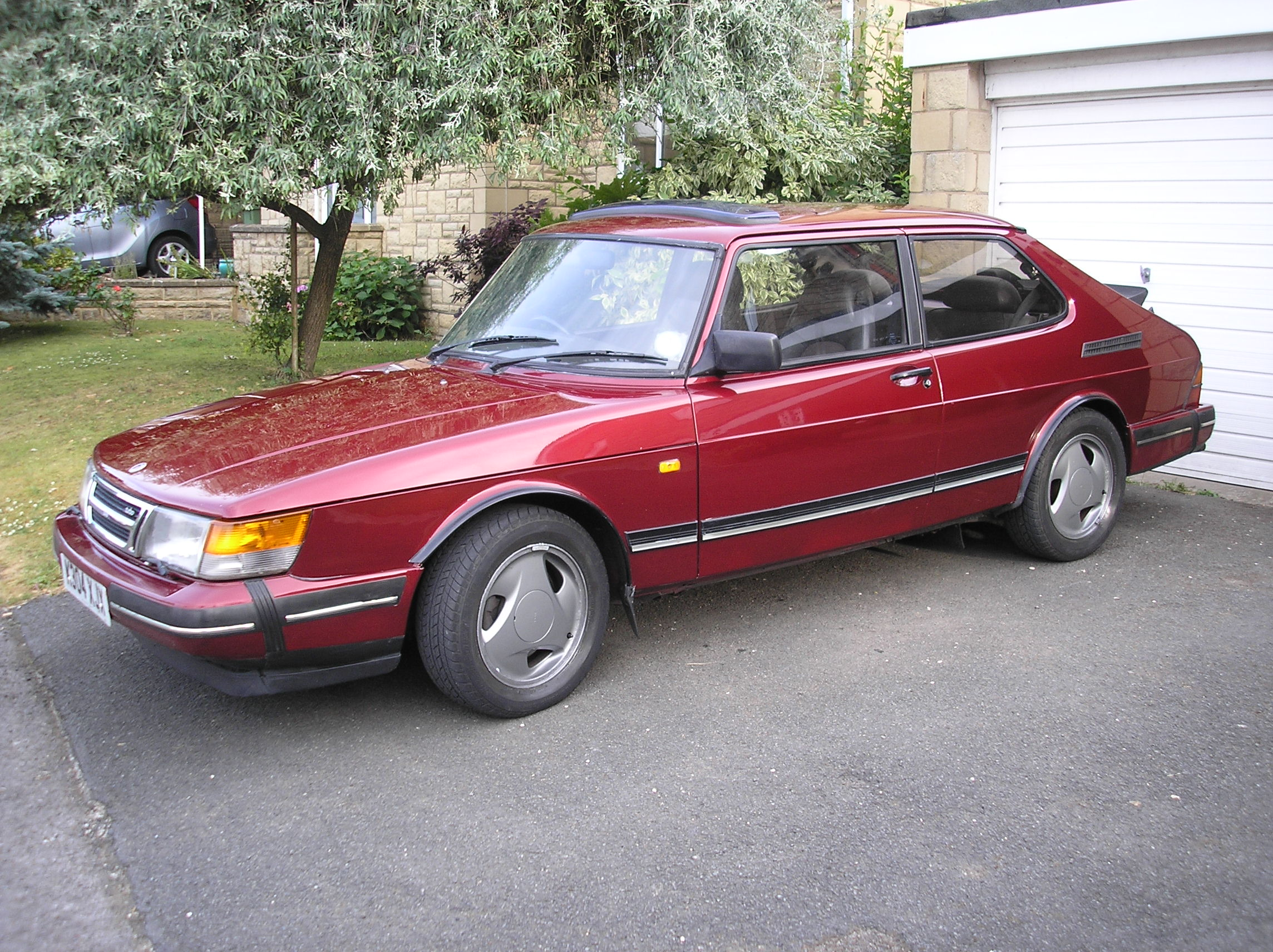 1993 Saab 900 Turbo - Ruby limited edition